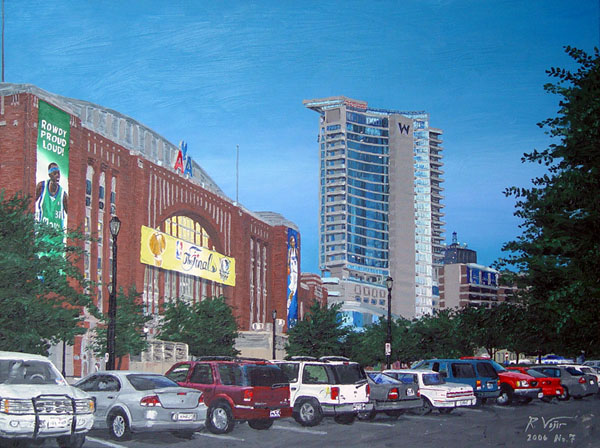 'Maverick Excitement' Victory Park, Dallas, TX by Ryan Vojir The image shows the American Airlines Center during the 2006 NBA Playoffs and the newly constructed W Dallas Victory Hotel and Residences.